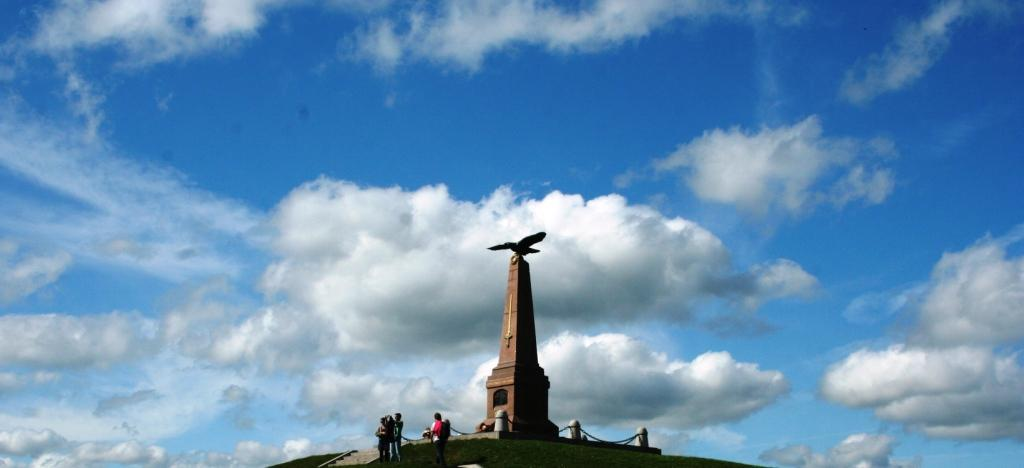 Borodino Memorial, photo 2009